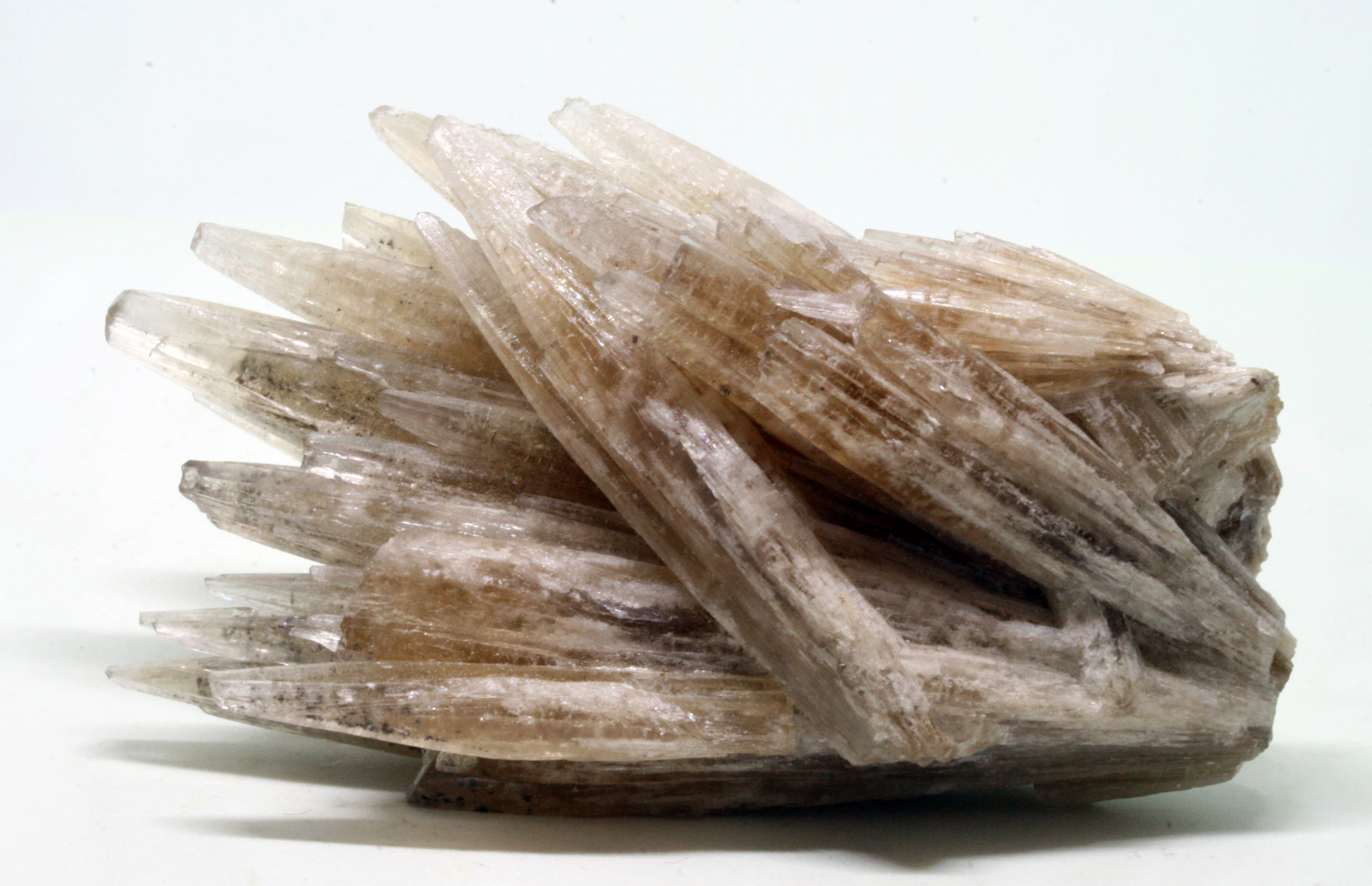 Aragonite crystals. Magnesite open works, Eugui, Esteribar (Navarra) Spain.